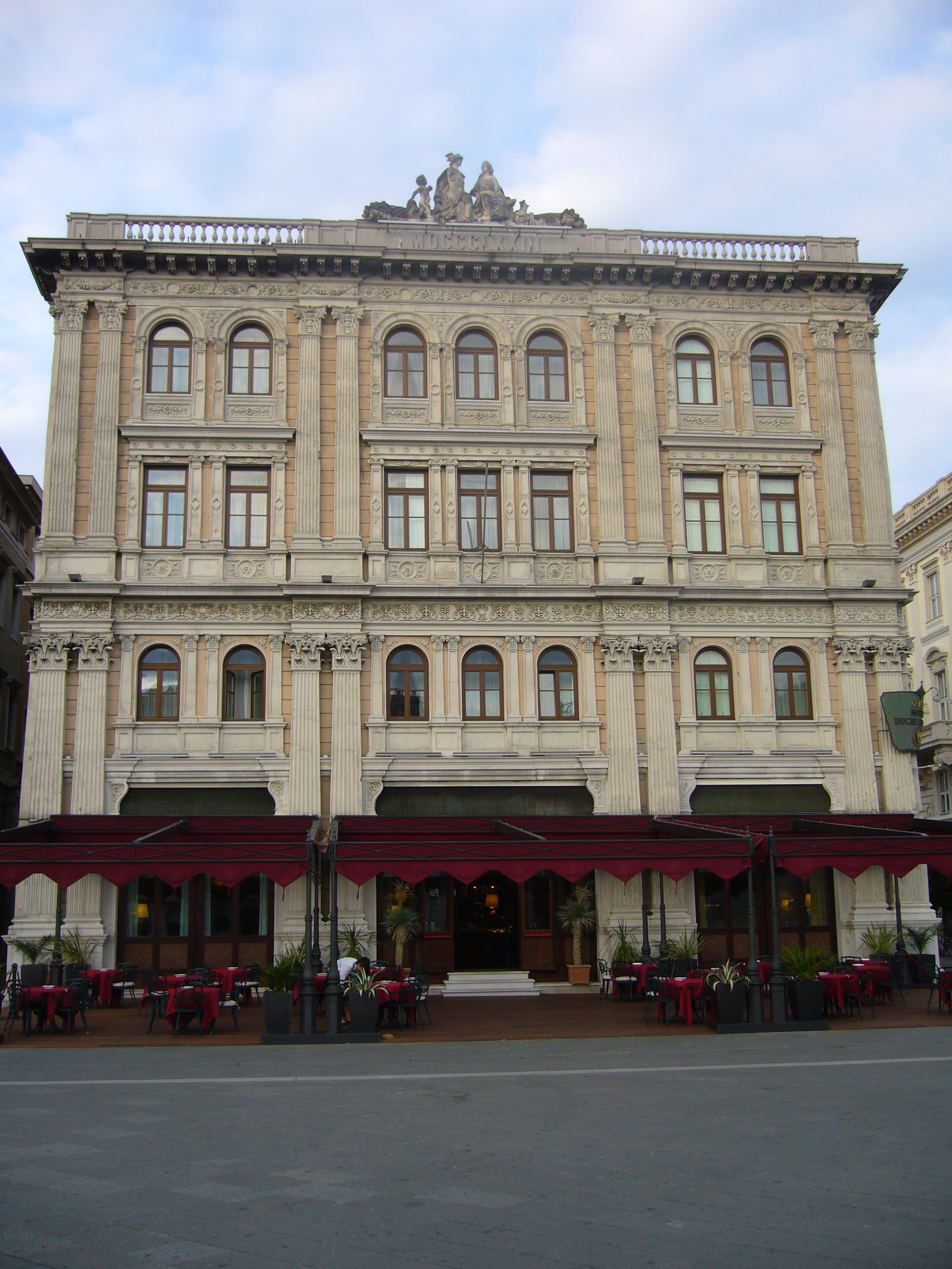 Duchi d'Aosta, hotel at Piazza dell'Unità d'Italia in Triëst